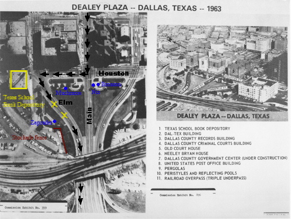 Aerial map of Dealey Plaza in Dallas, Texas, showing the route of President John F. Kennedy's motorcade on November 22, 1963. The red X's indicate his locations when he was shot. The blue dots indicate the locations of amateur filmmakers who filmed the assassination. Adapted from Warren Commission Exhibits 359 and 876, published in the public domain in 1964.